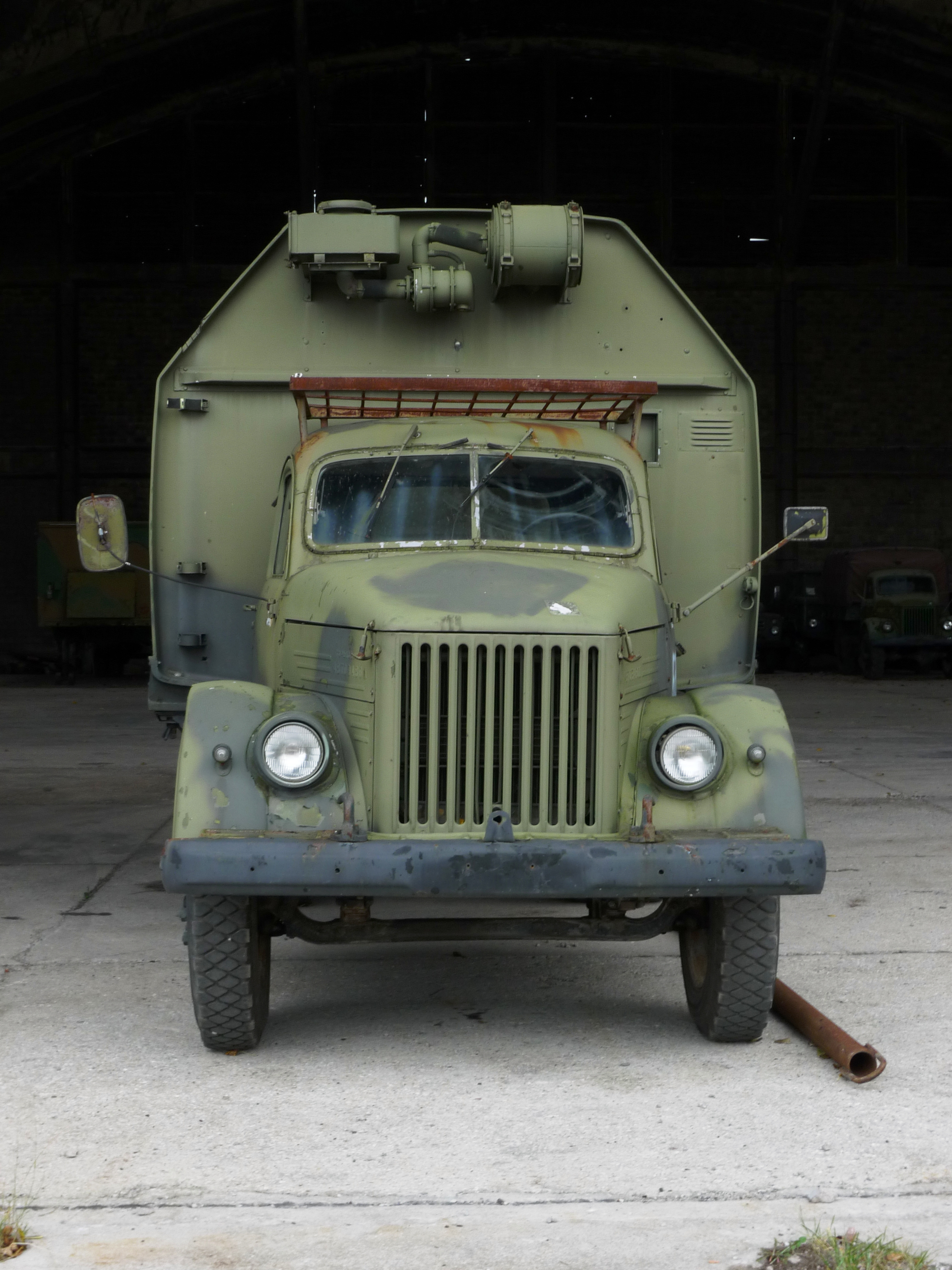 Old military truck (GAZ-51) at maritime museum, tallinn, estonia.